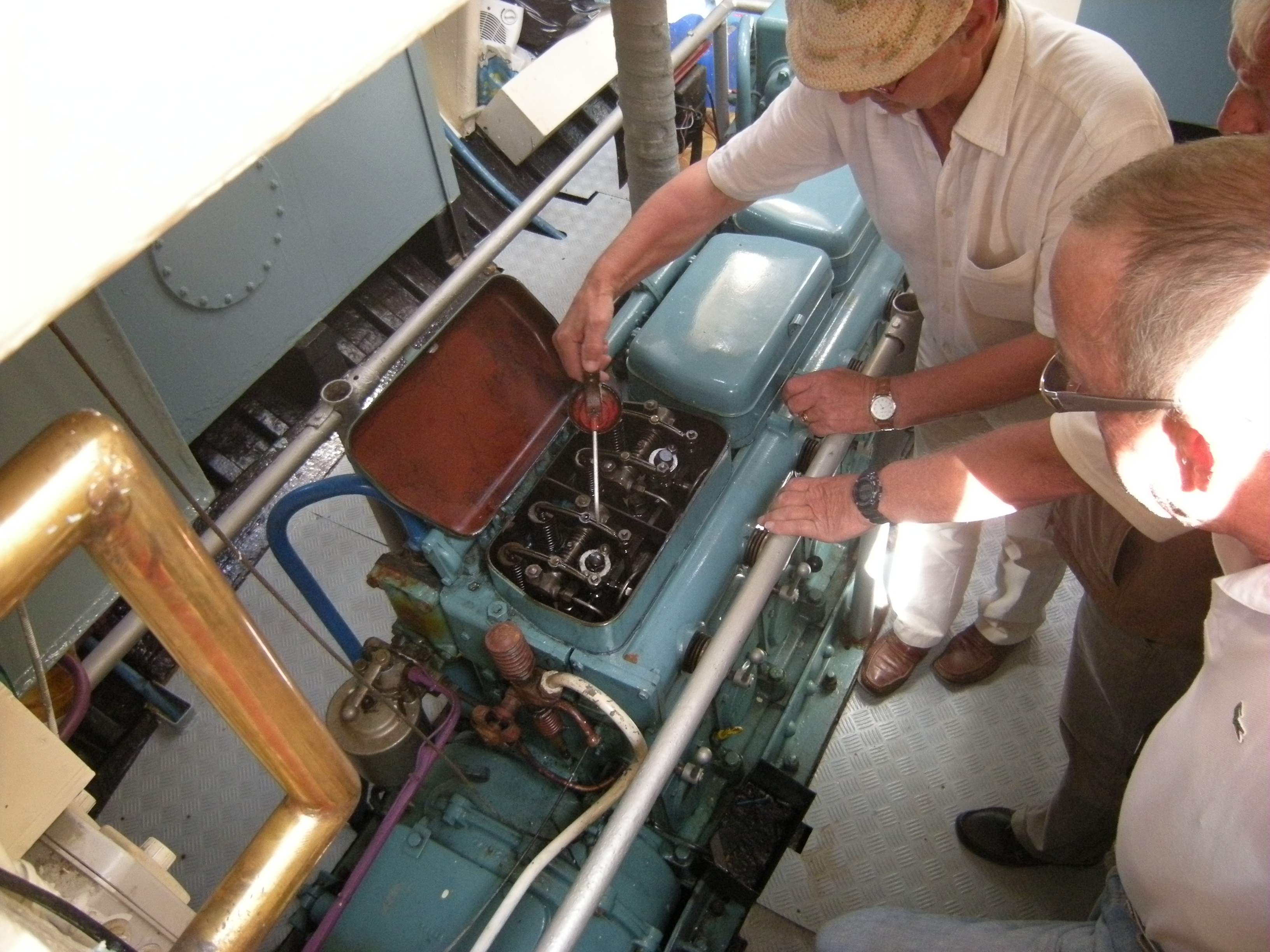 Baudouin DK6 marine engine lubrication of La Horaine motor boat